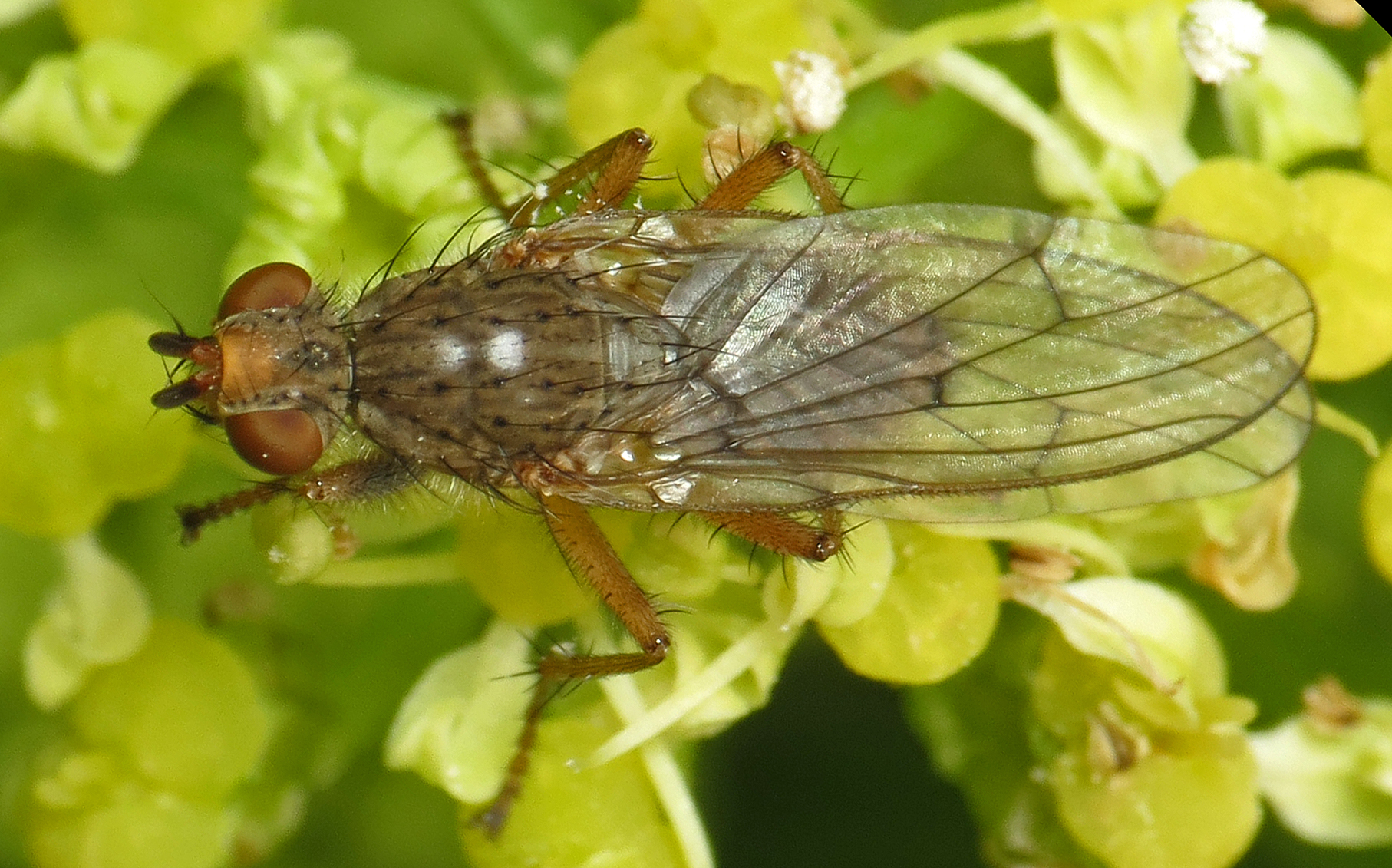 ID thanks to Stephane Lebrun, A very common dung-fly species often associated with sheep dung. Only 1 record on NBN Gateway for East Suffolk at Minsmere in 2003. Details for this observation: Scathophaga furcata Woodbridge, East Suffolk TM 27064841 27-Mar-2014 On Hogweed in a hedgerow